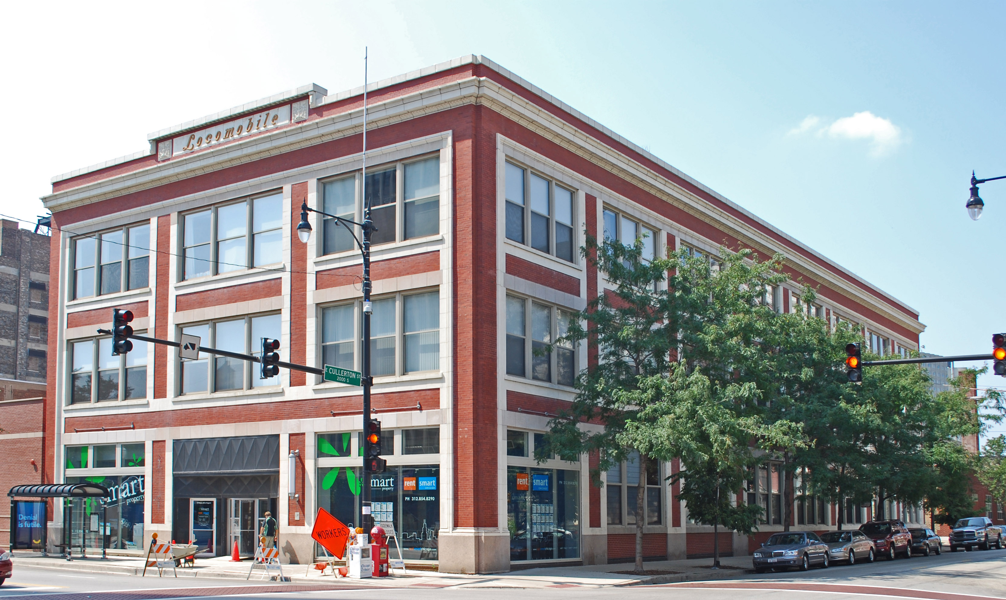 Locomobile Building (today called "Locomobile Lofts"), 2000 S. Michigan Ave, Chicago, Illinois, USA – The former showroom and service building of the Locomobile Company of America is located in historic Chicago's "Motor Row District". The original architects of Locomobile, Jenny, Mundie and Jensen filed for their permit on 1909-05-27.